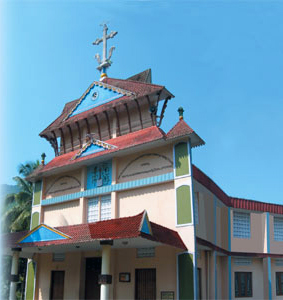 Cherupushpam church chandanakampara